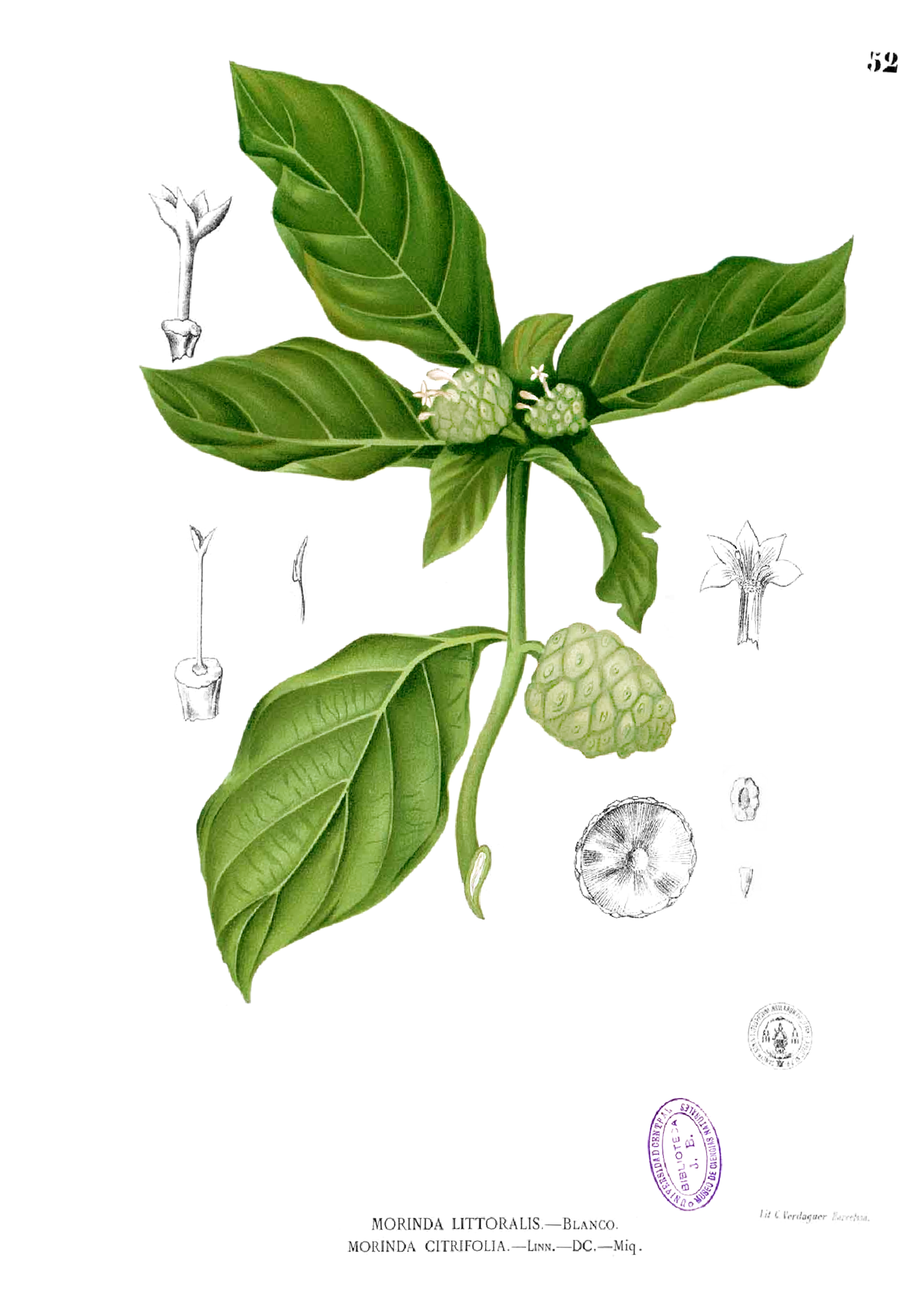 Plate from book